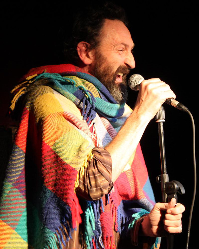 Phil Kay. Resident host and general zany MC of Goodfather Comedy